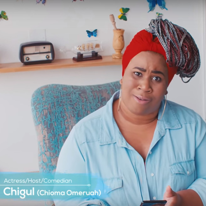 Chigul 2019